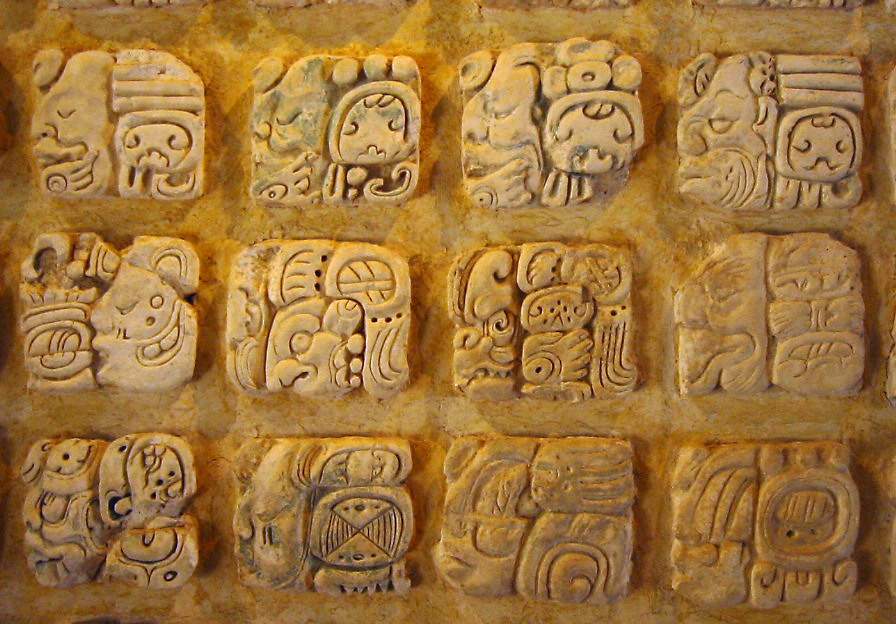 Maya stucco glyphs diplayed in the museum at Palenque, Mexico.